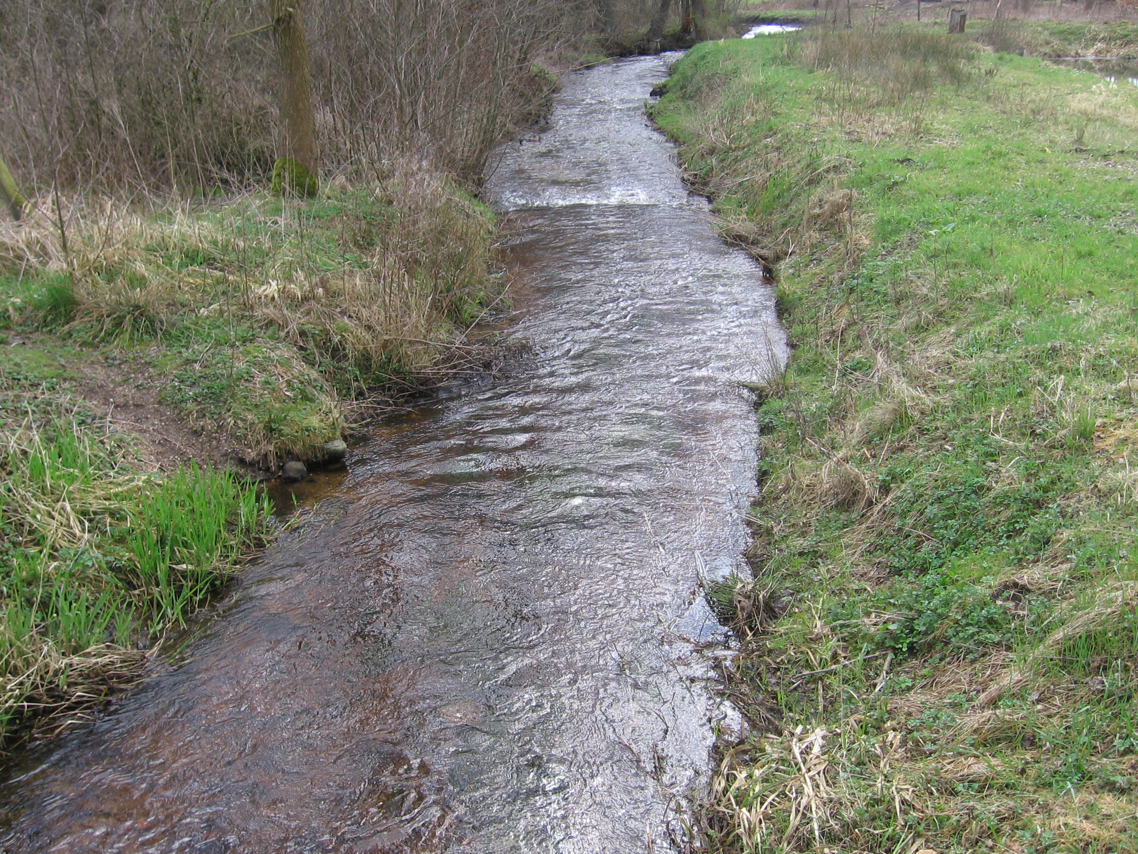 The small river Schmalwasser near Bargfeld, Lower Saxony, Germany.